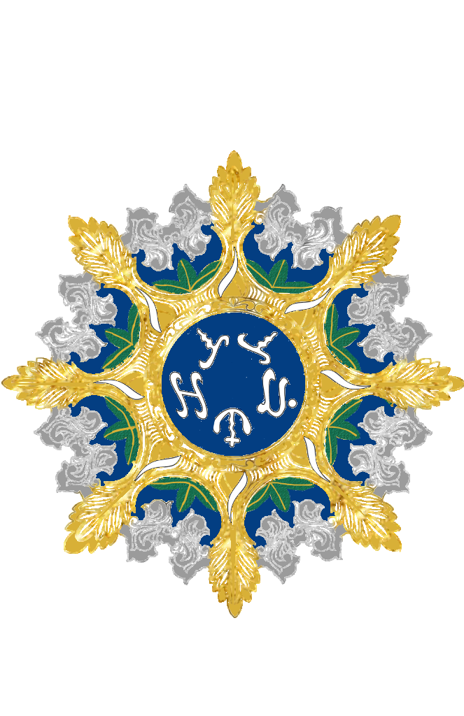 The Order of Lakandula Tagalog: Ang Gawad Lakandula